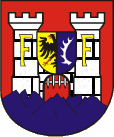 Municipal coat of arms of Šumperk town, Czech Republic.